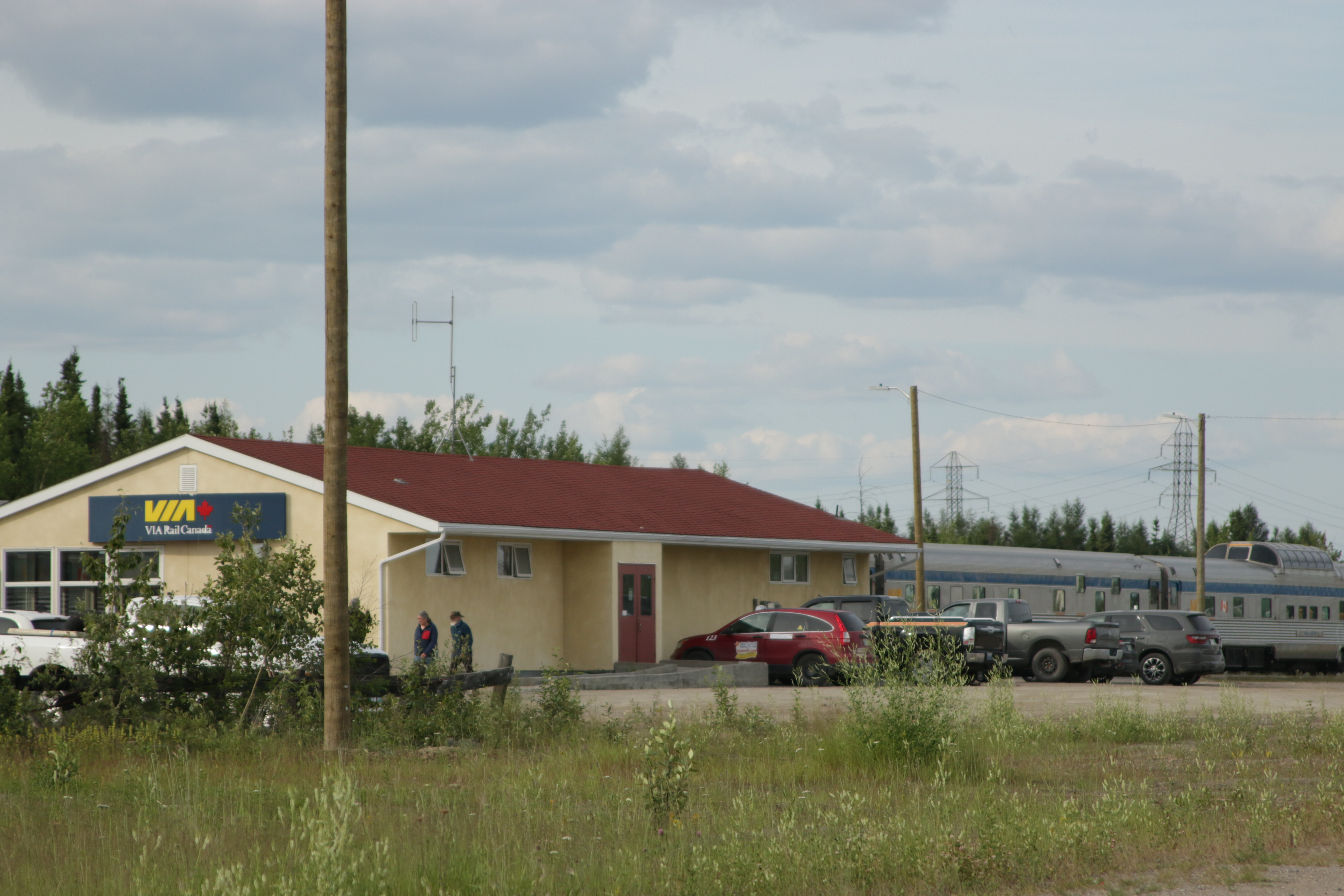 Thompson Station as seen in 2019, with a Northbound VIA Rail train headed to Churchill.